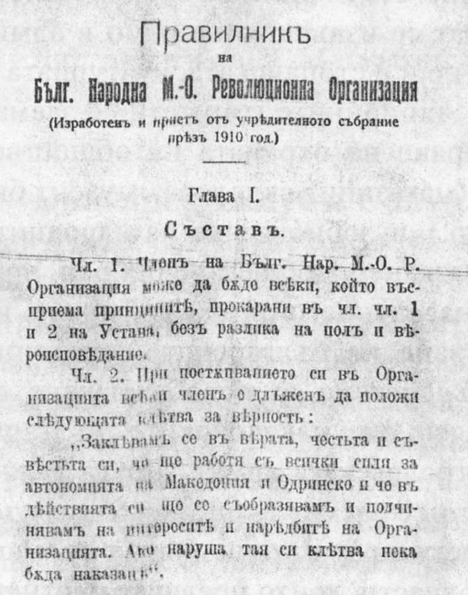 Statute of BNMORO